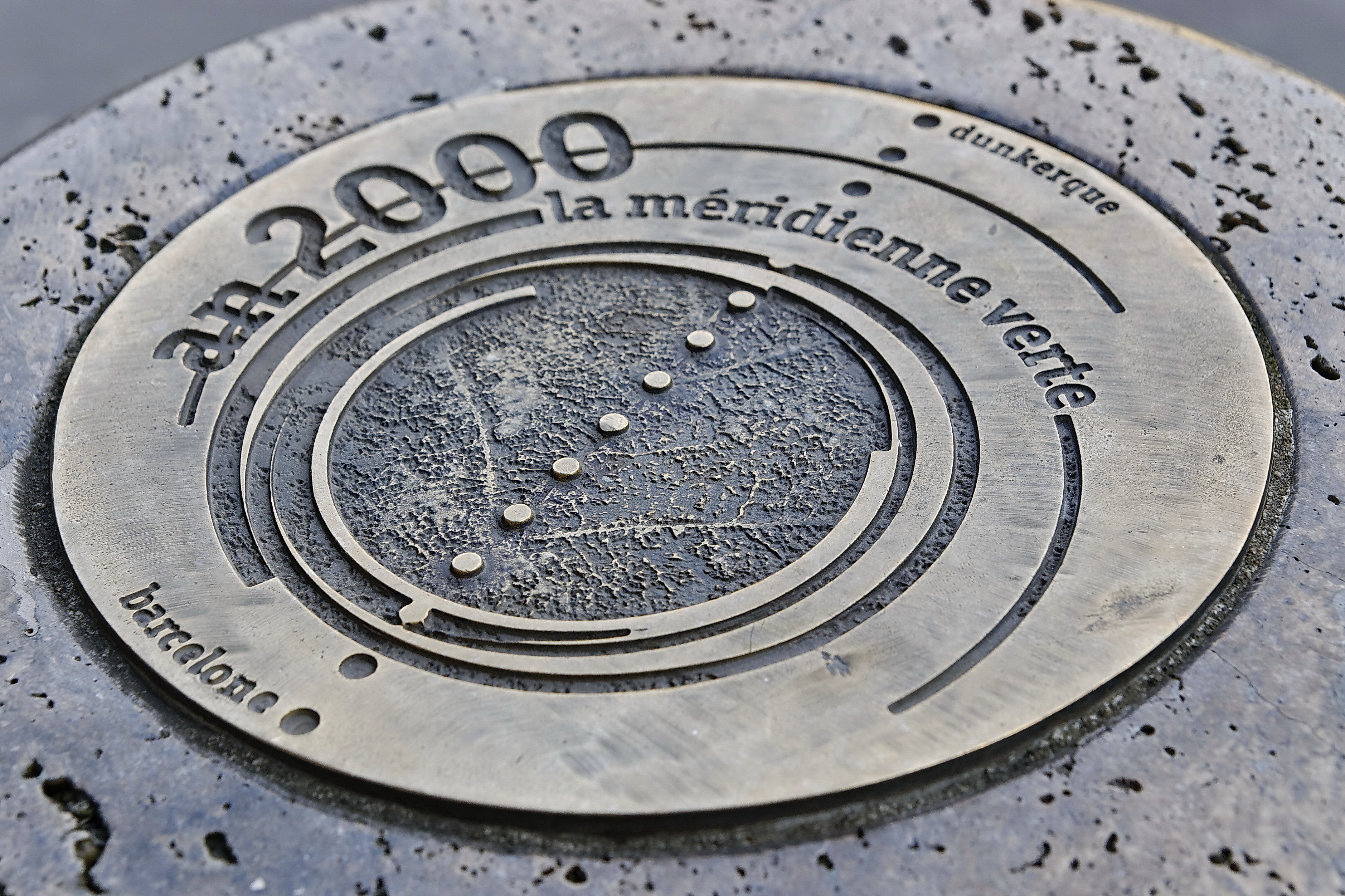 méridienne verte medallion on top of a stone, in Rivoli street at Le Louvre entrance passage Richelieu, in Paris 1st arr.